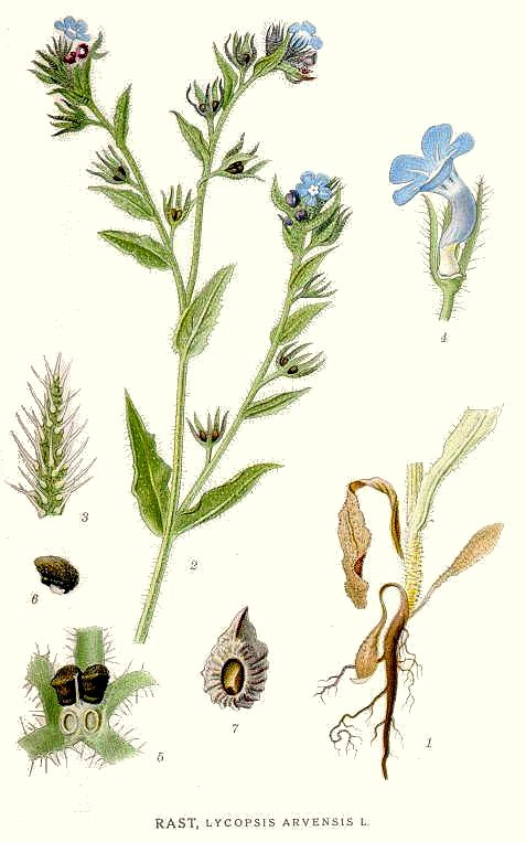 Anchusa arvensis (L.) M. Bieb., syn. Lycopsis arvensis L. Original Description Rast, Lycopsis arvensis L.